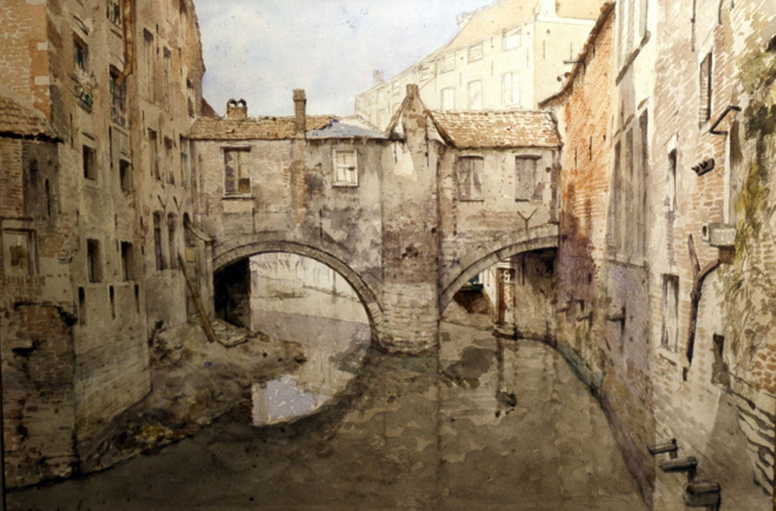 Oud Spui on the Zenne river in Brussels as part of the first city walls, painted by Van Moer